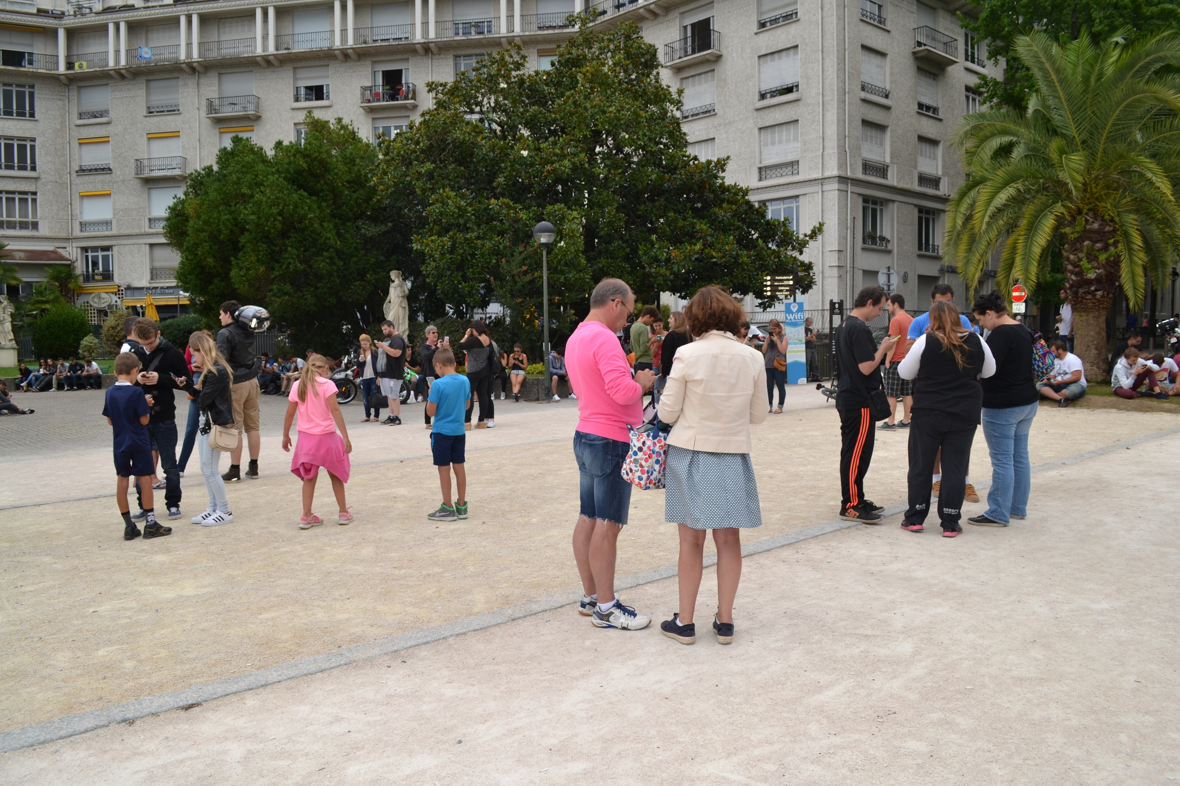 Pokemon Go players in Pau Square Aragon.